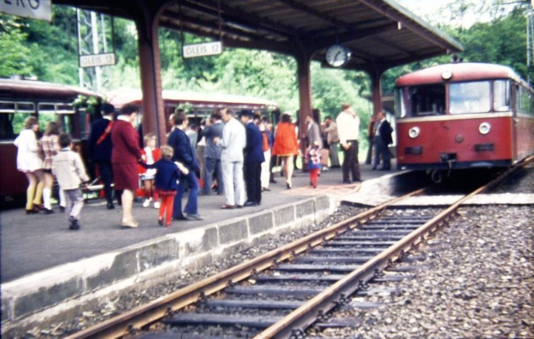 Due to the discontinuation of passenger transport on the Gelstertalbahn Eichenberg-Großalmerode Ost-Walburg, there was a final trip with decorated rail buses. These stopped in Eichenberg at the platforms 12 and 13, which were abandoned in 1990.